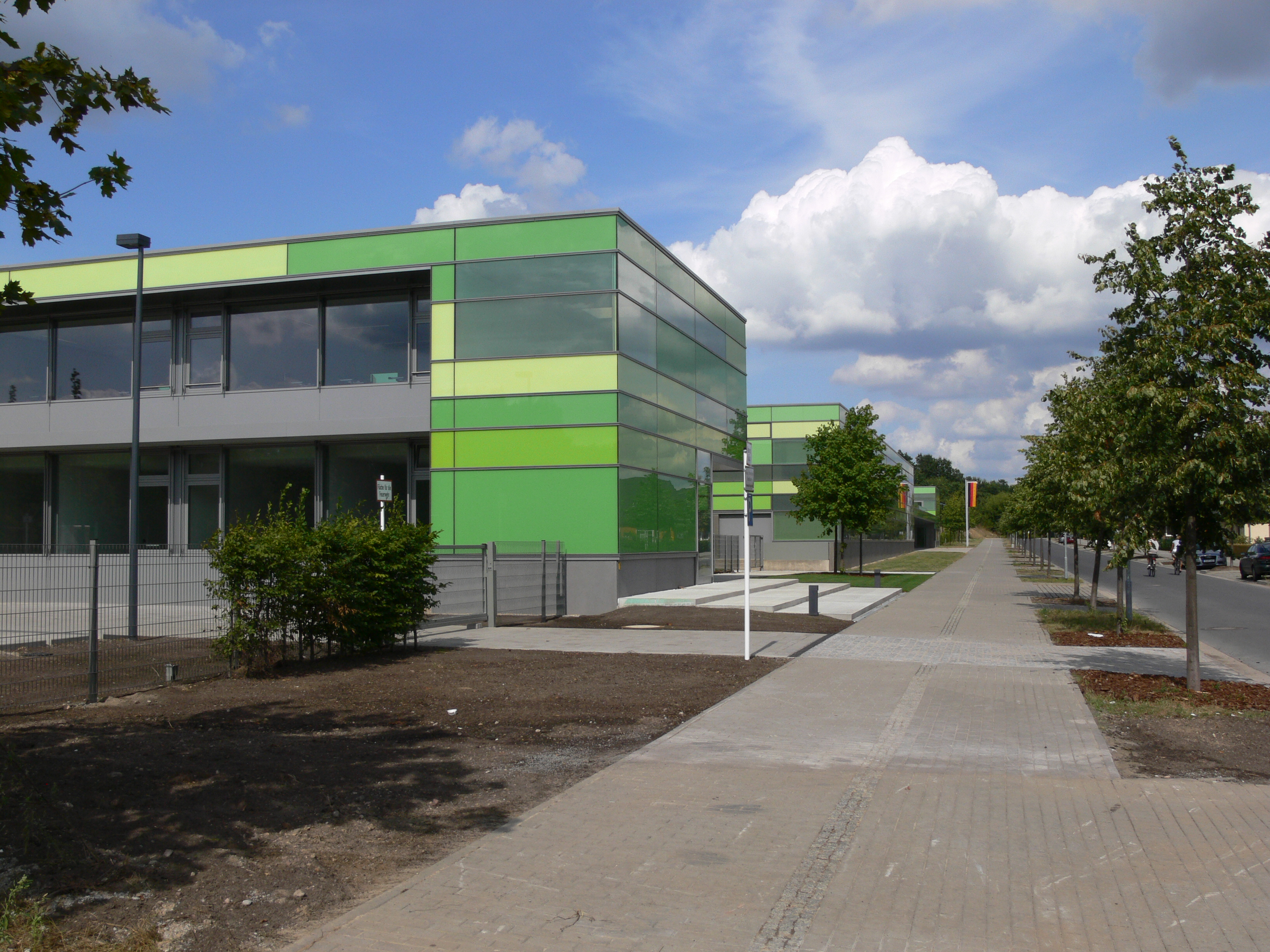 Marie-Curie-Gymnasium Dallgow-Döberitz Extension